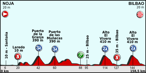 Profile of the 19th stage: Vuelta a España 2011